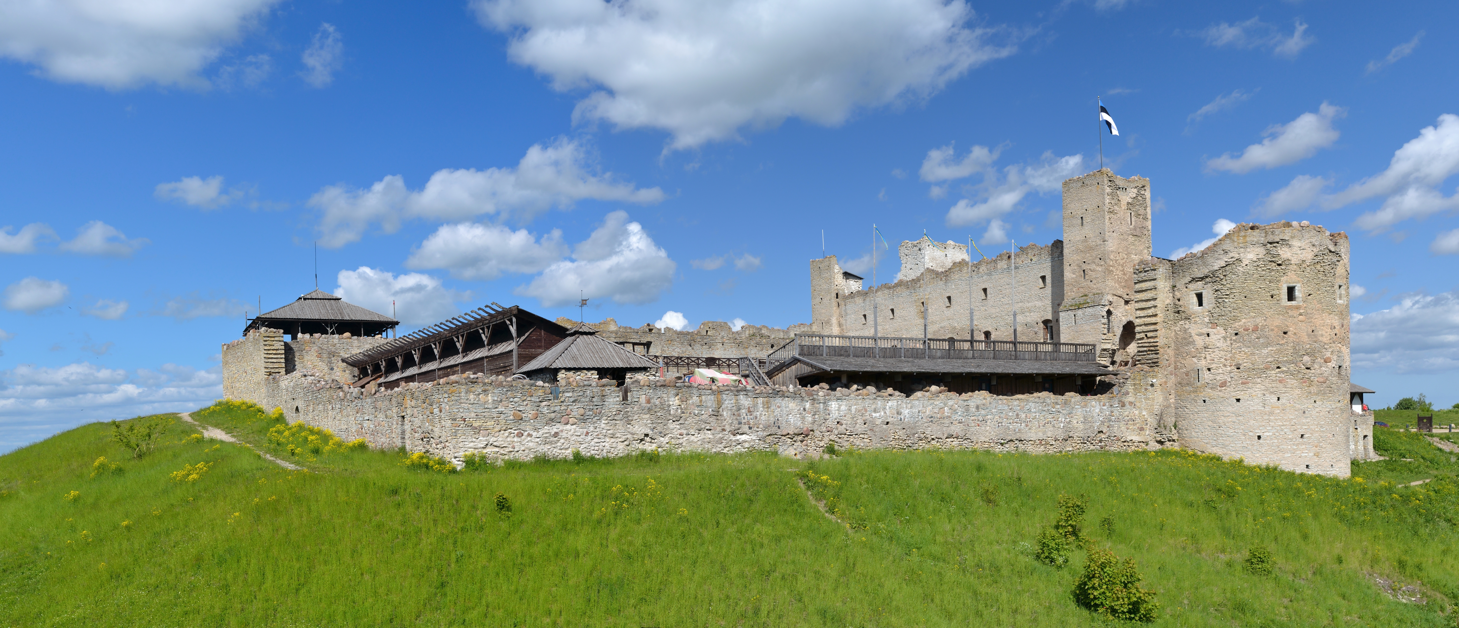 Rakvere castle ruins, Lääne-Viru County, Estonia.